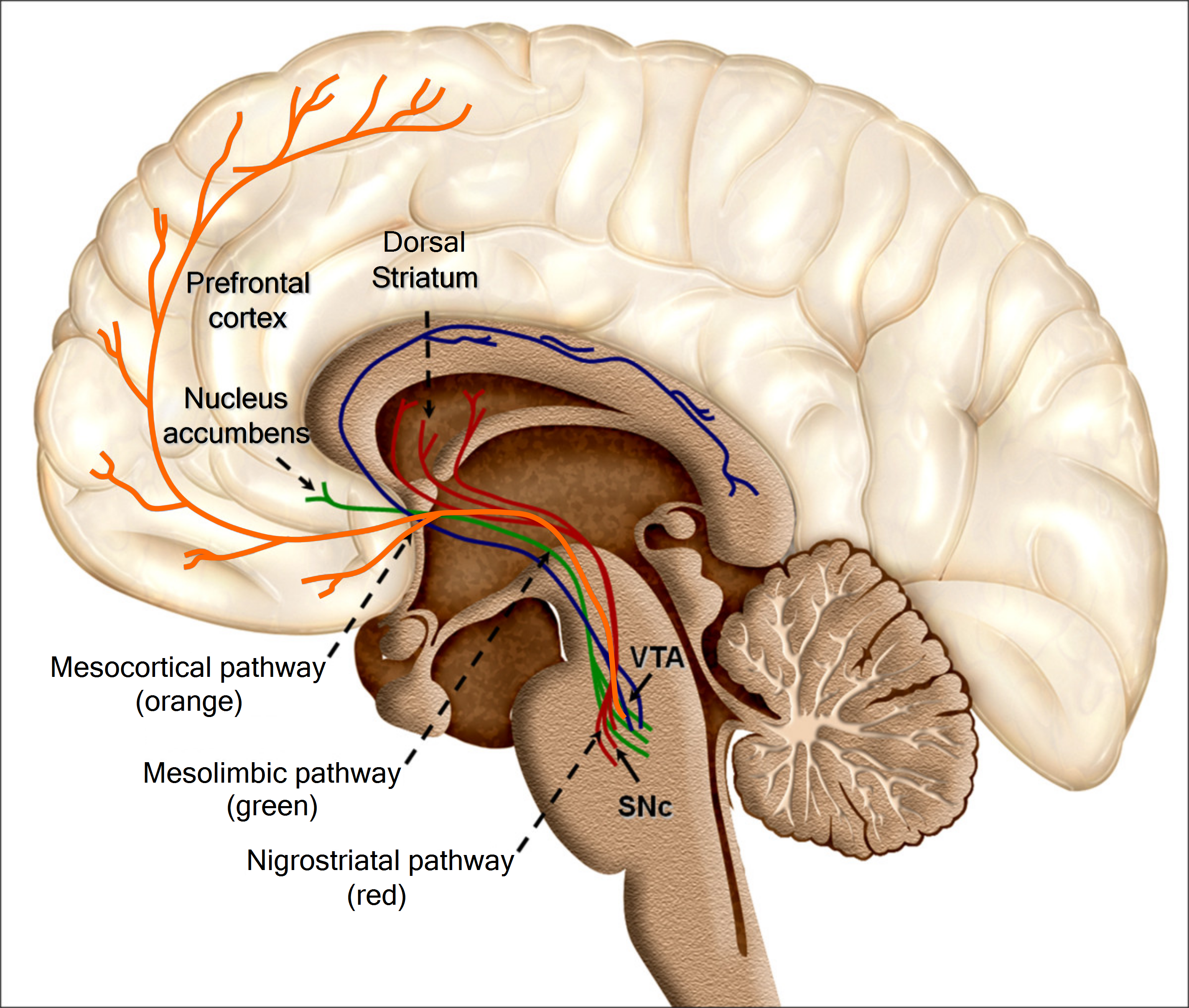 This image is a modification of File:Overview of reward structures in the human brain.jpg with the mesocortical pathway recolored in orange and revisions to the labels for the Nucleus accumbens, Prefrontal cortex, Dorsal Striatum*, Nigrostriatal pathway, Mesocortical pathway*, and Mesolimbic pathway* (an asterisk indicates a modified label – as opposed to an overwritten label – in this version). Overview of reward structures in the human brain. Dopaminergic neurons are located in the midbrain structures substantia nigra (SNc) and the ventral tegmental area (VTA). Their axons project to the dorsal and ventral striatum (caudate nucleus, putamen and ventral striatum including nucleus accumbens), the dorsal and ventral prefrontal cortex, and elsewhere. Additional brain structures in the reward system include the supplementary motor area in the frontal lobe, the rhinal cortex in the temporal lobe, the pallidum and subthalamic nucleus in the basal ganglia, and others.